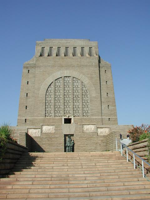 Front view of the Voortrekker Monument, Pretoria, South Africa. It was completed in 1949 and contains a marble frieze consisting of 27 panels, commemorating events of the Great Trek in which farmers of Dutch origin emigrated from the Cape Colony to inland regions between 1835 and 1852. At the centre of the monument is the cenotaph, the symbolic tomb of the Voortrekker governor Piet Retief and his delegation, who were massacred in 1838. It bears the inscription "We for thee, South Africa", and is illuminated annually at noon, the 16th of December, by a beam of sunlight directed through an aperture in the cupola. Prior to 1994 which heralded a new dispensation, December 16th was celebrated as the "Day of the Vow", commemorating a victory over Zulu forces at the Battle of Blood River; it remains a holiday but is now called "Reconciliation Day". A circular wall with wagons reliefs, representing a Voortrekker laager, surrounds the monument.